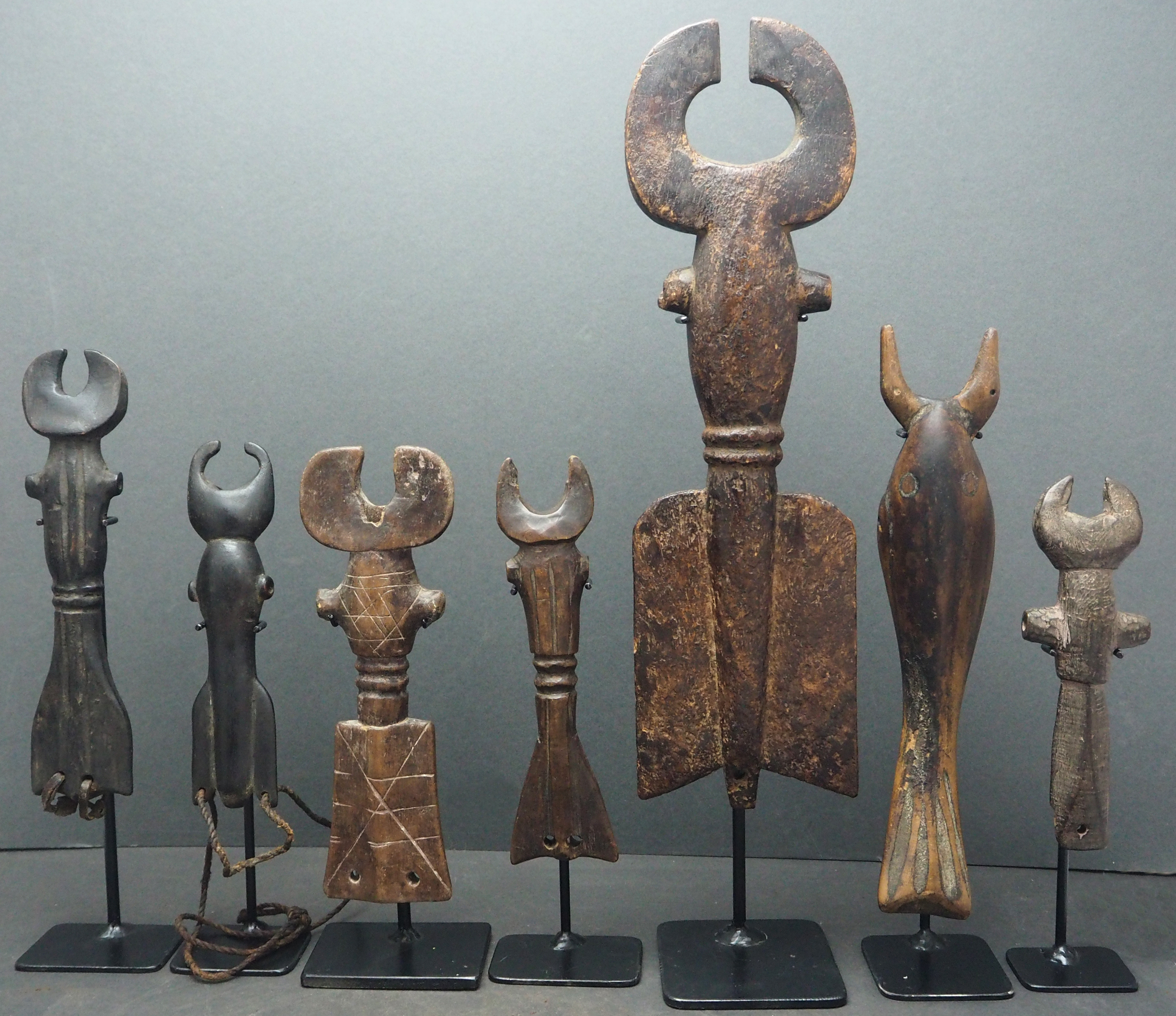 Flutes of differing shapes and forms are used in ceremonies across West Africa. These from the Bamileke are particularly beautiful. "Often erroneously described as whistles Bamileke flutes have a distinctive shape that incorporate zoomorphic and anthropomorphic elements in a supremely functional design. Such flutes are carried on a loop of twine or braided leather threaded through holes in the closed end and worn around the bearer's neck. Hanging in this way the flute can be interpreted as a human figure with the holes as eyes, the projecting stops as arms and the terminal lobes as legs. When played it is inverted and the terminal lobes, projecting stops and hanging holes become, respectively, the horns, eyes and nostrils of a buffalo head. Forest buffaloes are vital icons in Bamileke culture, appearing frequently in folklore and as characters in masked dances." from: You can see full size image. Click Action tab - Lower right 3 dots. Scroll, click on view all sizes. Further information or more images of individual pieces please contact me with image number and description: Ann Porteus Sidewalk Tribal Gallery 19-21 Castray Esplanade, Battery Point, 7004. Hobart Tasmania Australia t: 613 6224 0331